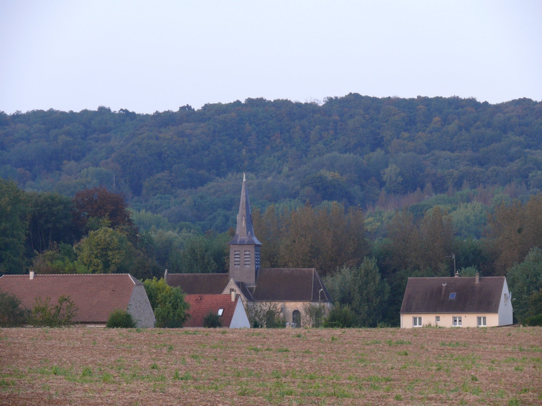 Saint-Medard's church of Bienville (Oise, Picardie, France).